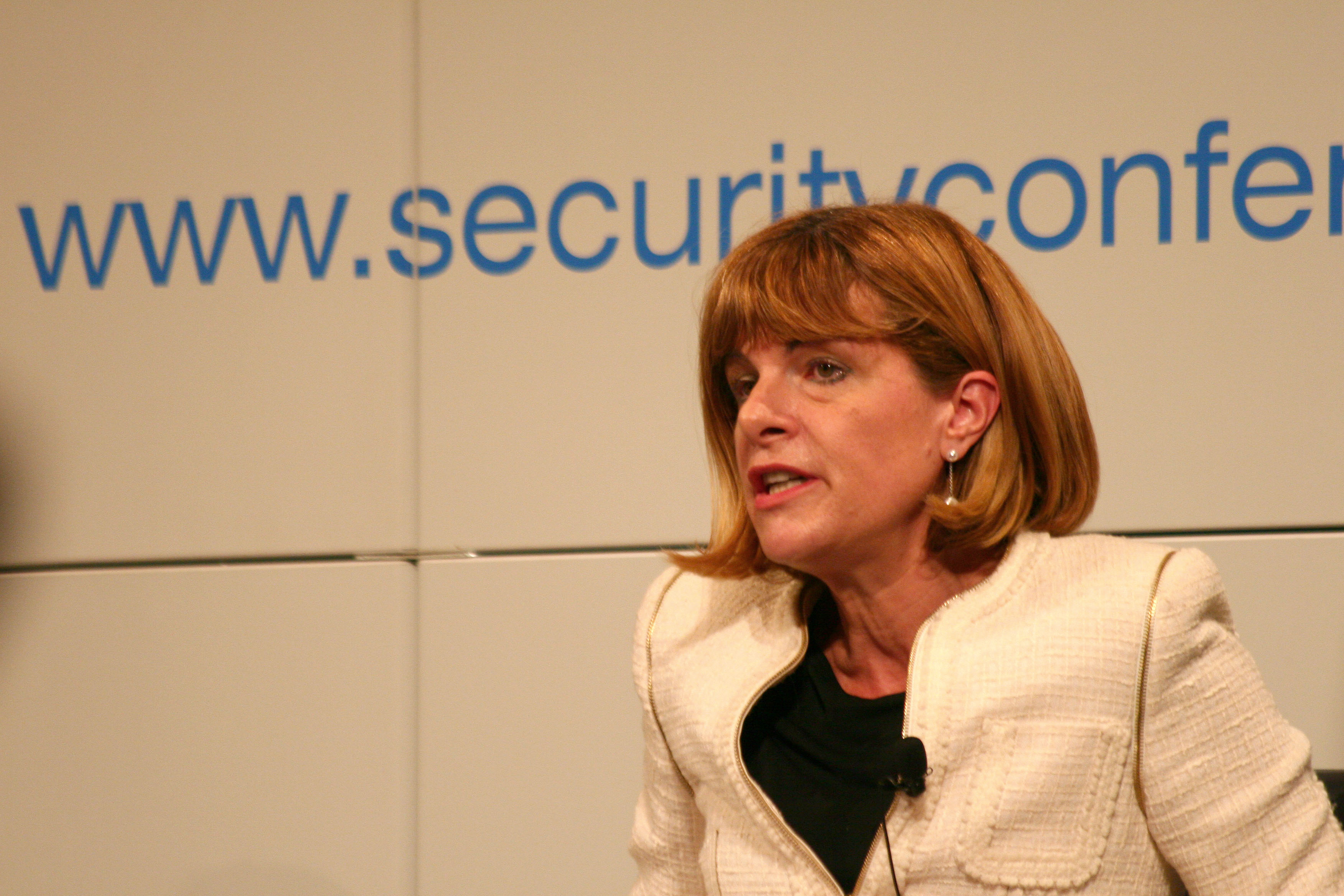 46th Munich Security Conference 2010: Anne Lauvergeon, Chief Executive Officer, Areva, Paris.